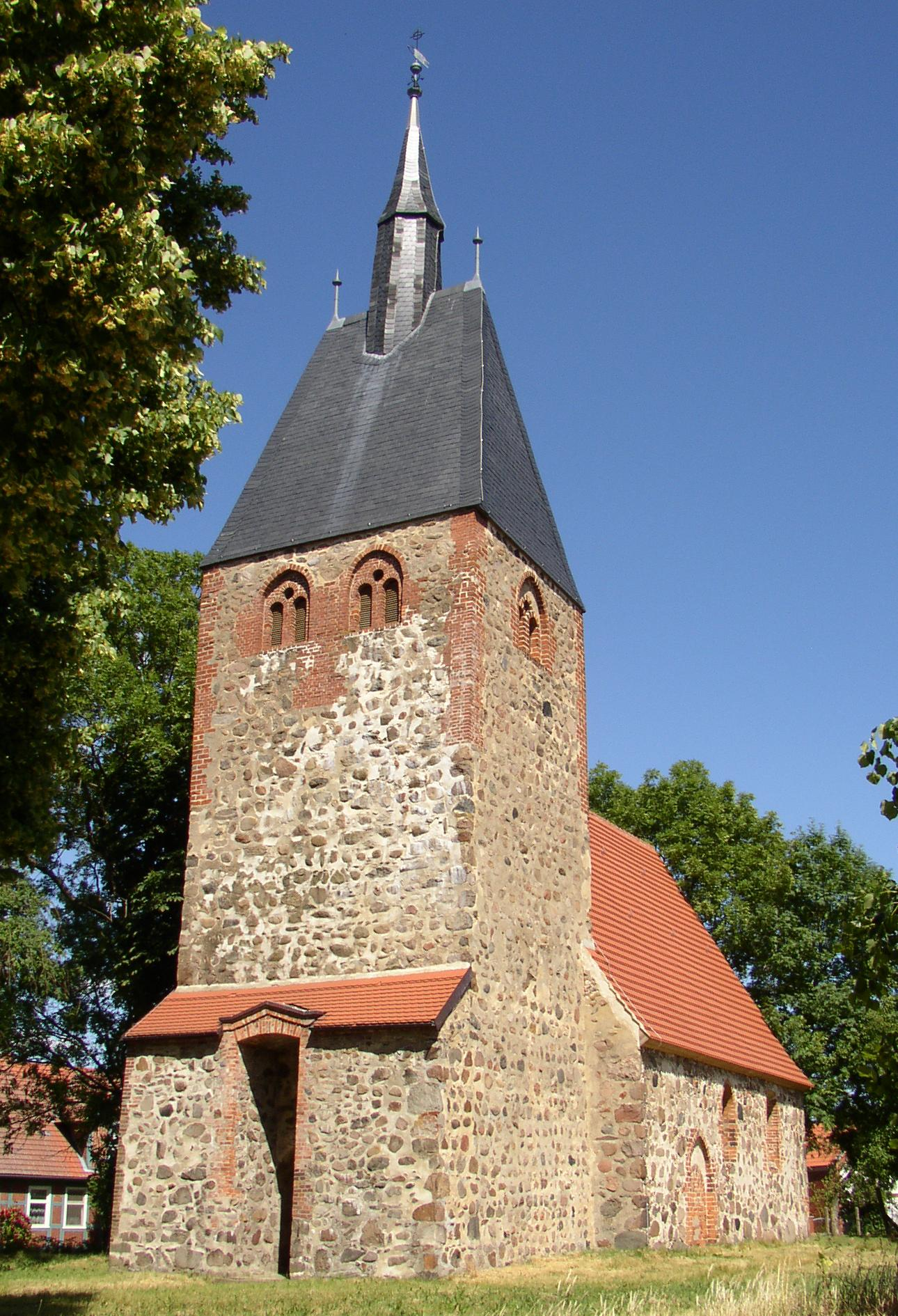 Church in Pritzwalk-Sarnow in Brandenburg, Germany